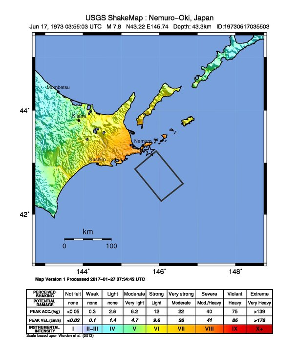 M 7.7 - Hokkaido, Japan region - Shakemap